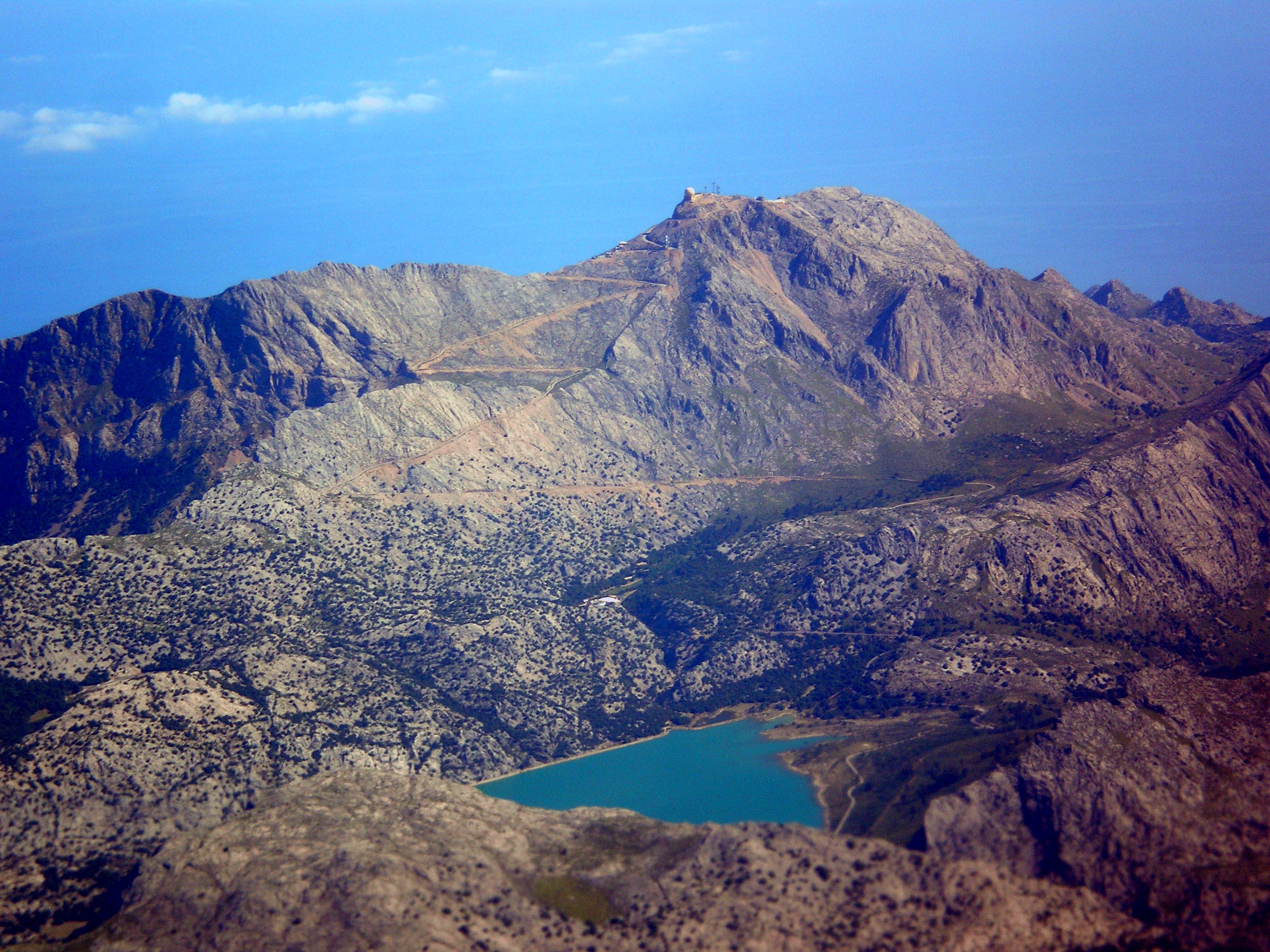 The Puig Mayor (1445 m. , Majorca) in the morning of 16th June 2008.